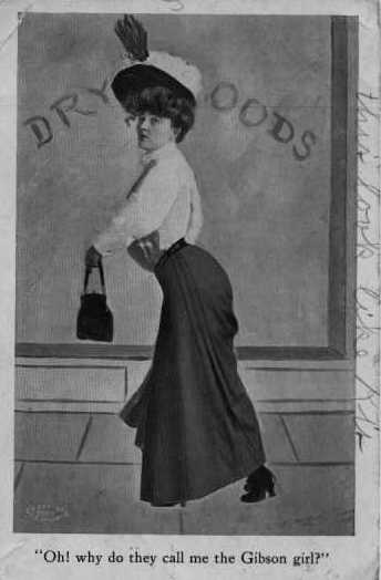 American postcard, showing a caricature of a Gibson girl, 1907. The line is from a populkar song of the early 20th century